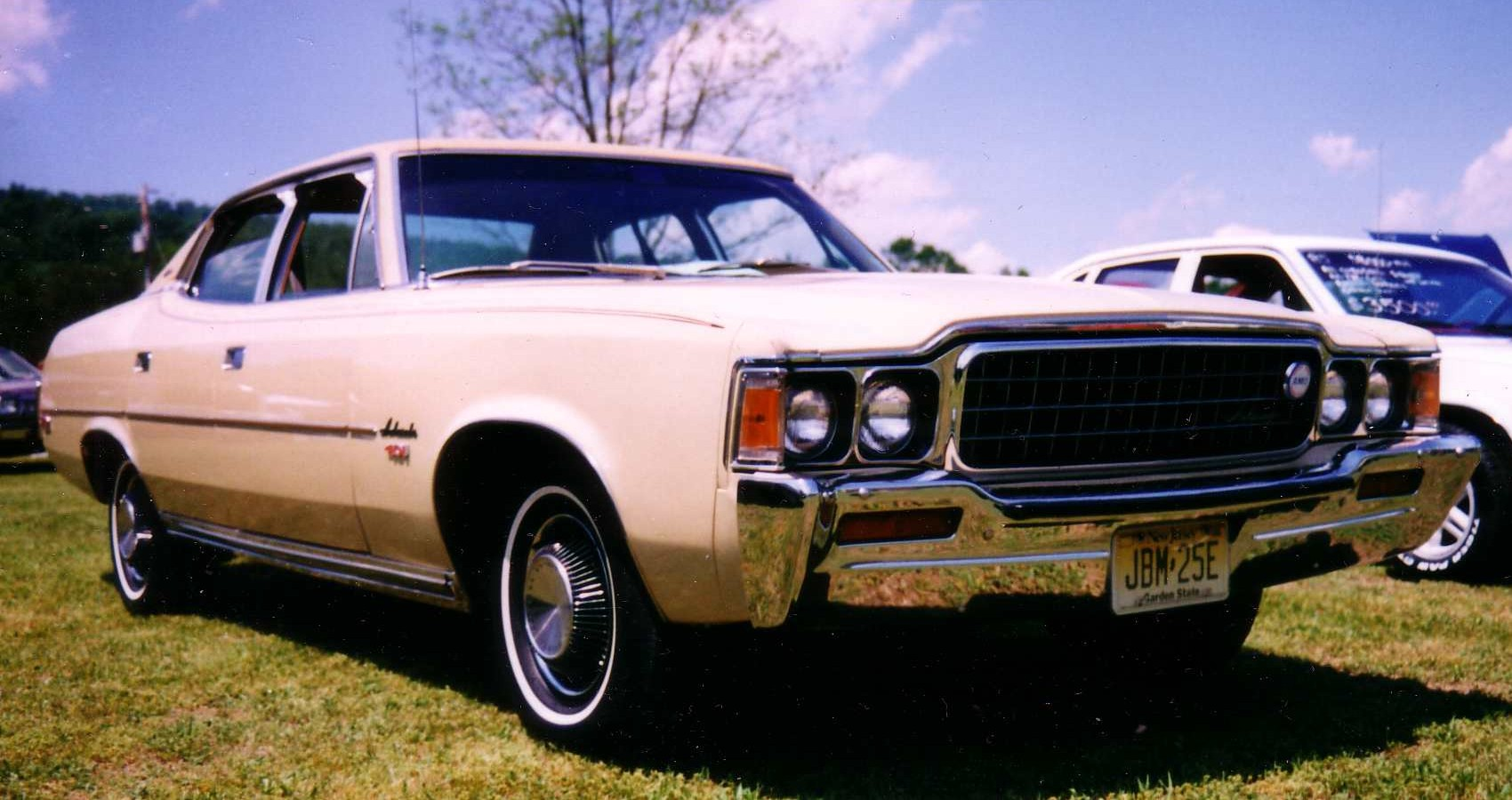 American Motors Corporation (AMC) vehicle - 1973 AMC Ambassador Brougham 4-door sedan with 401 CID (6.6 L) V8 engine. Taken at an automobile show that was held at Lou Brown's "Nashville" in Orbisonia, Pennsylvania USA.